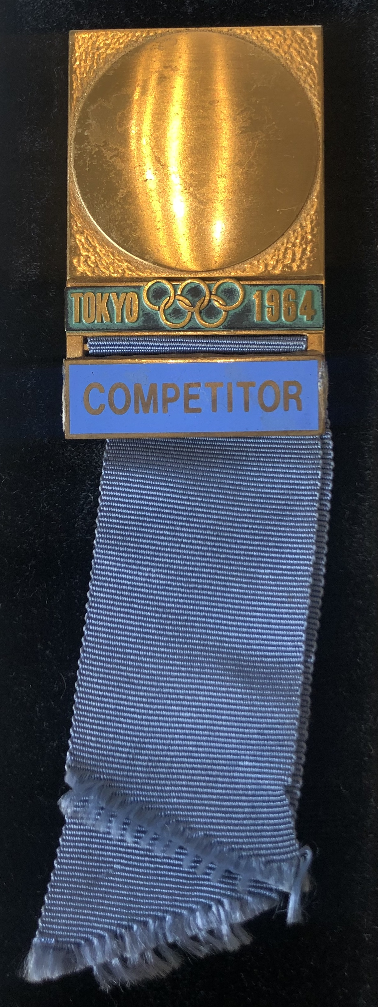 This is the participation medal of Edward Kelliher who competed in the Dragon mixed keelboat category of the 1964 Summer Olympics in Tokyo.